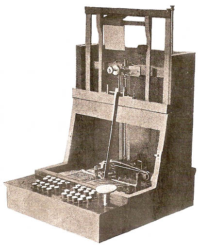 Photo of early prototype typewriter, the Pterotype ('winged type'), built by John Pratt, an American living in England, and presented at the Society of Arts in London and the Royal Society, in 1867. An article about it in the July 6, 1867 issue of Scientific American inspired many other typewriter inventors. A unique feature of the machine was that the typefaces were on a 'type plate', which was moved horizontally and vertically by the keys, and a hammer struck the paper from behind, driving it against the type. Pratt received British letter patent no.3163 on Dec. 1, 1866 and US Letter Patent No. 81000 on Aug. 11, 1868. Unable to develop it commercially, Pratt sold the rights to James Bartlett Hammond, and many of it's features were incorporated in the Hammond typewriter. For more information see Appleton's Annual Cyclopedia for 1890, p.809 Alterations: none.